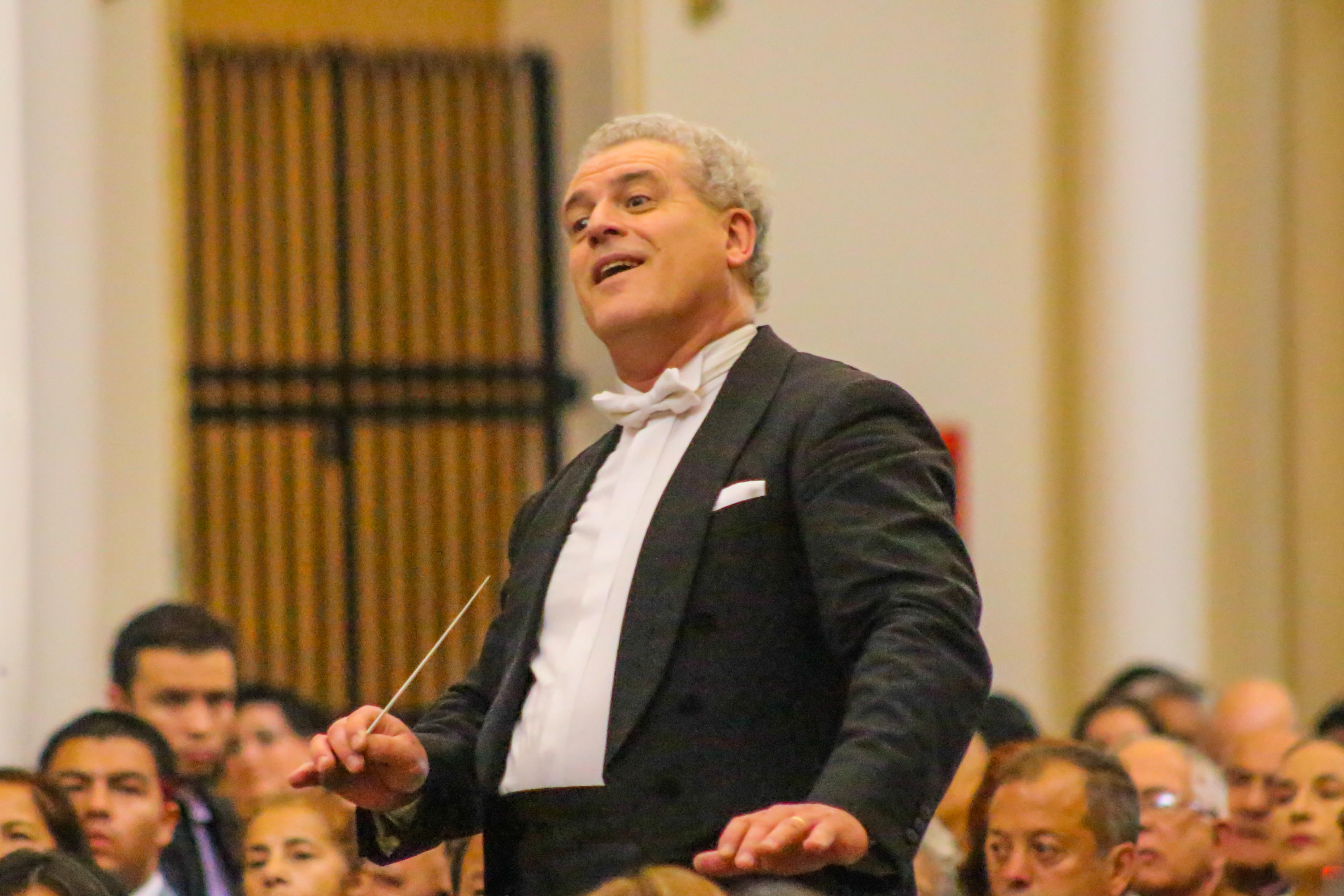 Patrick Fournillier conducting in Bogotá. Photograph taken on March 2016. Courtesy of: Cat's Tail Media.